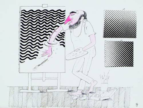 1995, ink drawing, watercolor, 295 x 420 mm